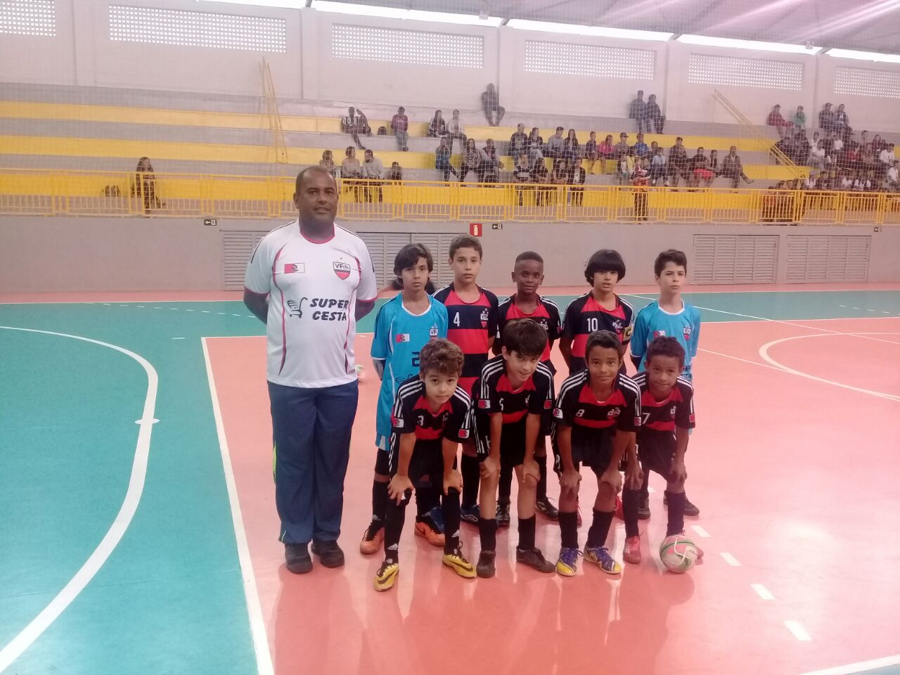 Vilense U-11 in the Futsal Mineiro Championship 2017.